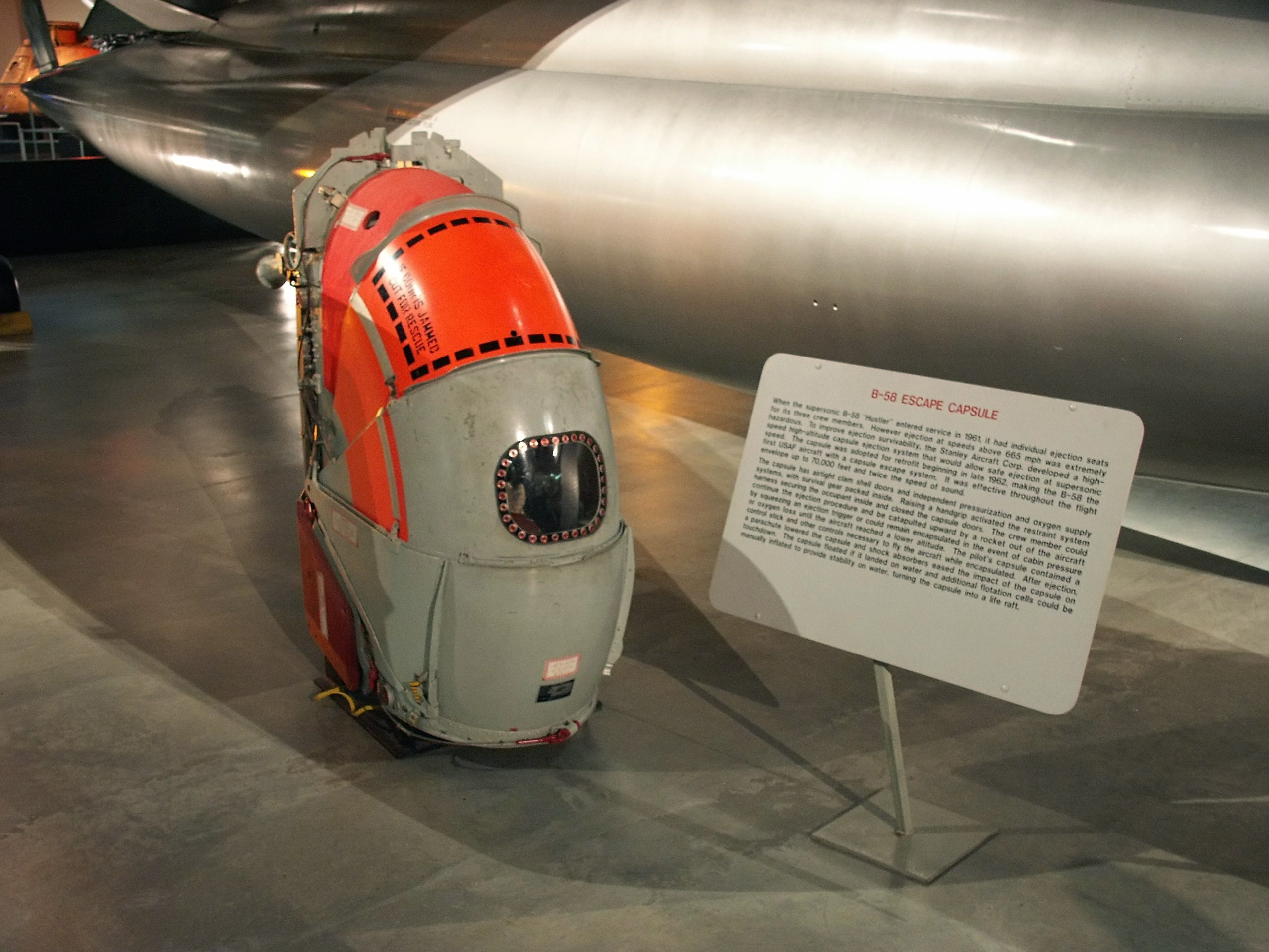 Crewmember escape capsule for the B-58 Hustler at the National Museum of the United States Air Force. The sign pictured in the image reads: B-58 ESCAPE CAPSULE When the supersonic B-58 Hustler entered service in 1961, it had individual ejection seats for its three crew members. However, ejection at speeds above 665 mph was extremely hazardous. To improve ejection survivability, the Stanley Aircraft Corp. developed a high-speed high-altitude capsule ejection system that would allow safe ejection at supersonic speed. The capsule was adopted for retrofit beginning in late 1962, making the B-58 the first USAF aircraft with a capsule ejection system. It was effective throughout the flight envelope up to 70,000 feet and twice the speed of sound. The capsule has airtight clam shell doors and independent pressurization and oxygen supply systems, with survival gear packed inside. Raising a handgrip activated the restraint system harness securing the occupant inside and closed the capsule doors. The crew member could continue the ejection procedure and be catapulted upward by a rocket out of the aircraft by squeezing an ejection trigger or could remain encapsulated in the event of cabin pressure or oxygen loss until the aircraft reached a lower altitude. The pilot's capsule contained a control stick and other controls necessary to fly the aircraft while encapsulated. After ejection, a parachute lowered the capsule and shock absorbers eased the impact of the capsule on touchdown. The capsule floated if it landed on water and additional flotation cells could be manually inflated to provide stability on water, turning the capsule into a life raft.